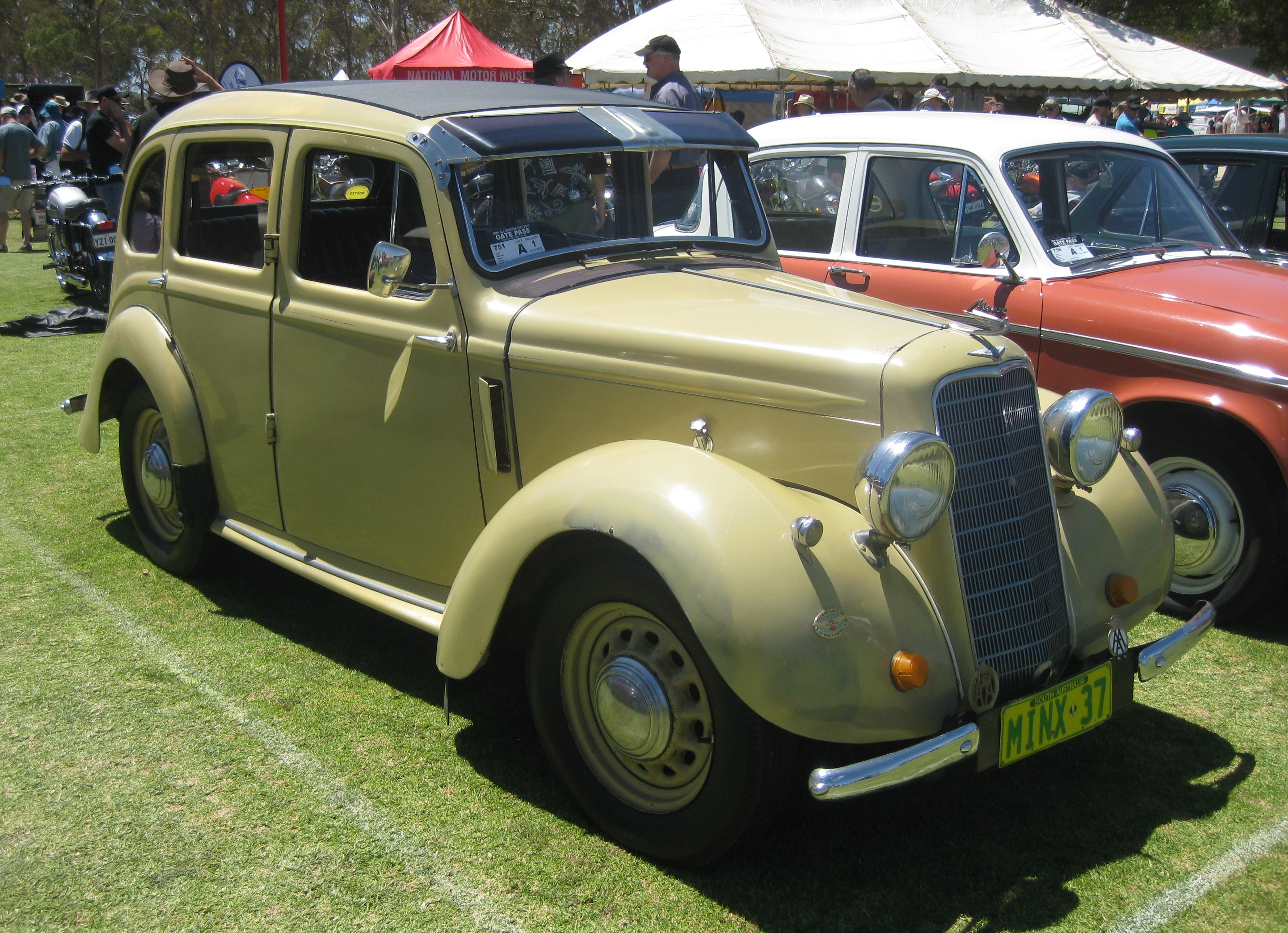 Hillman Minx Saloon of 1937